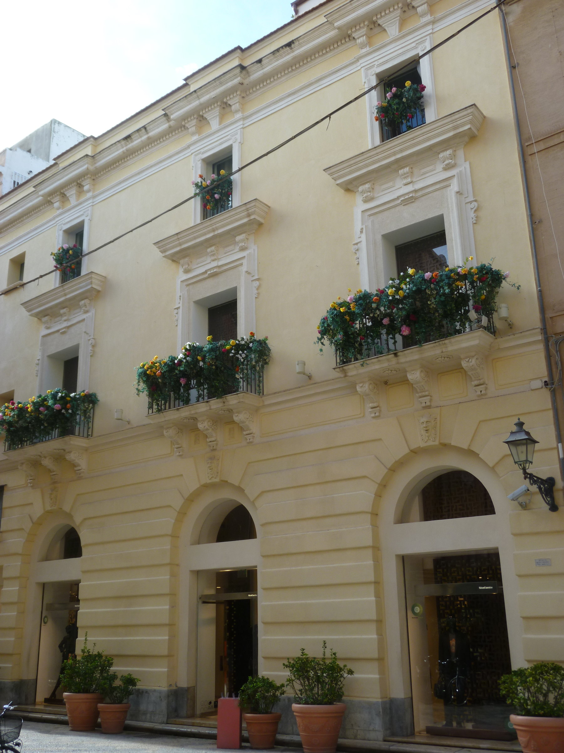 Palace of the "Banca Sicula", in Via Torrearsa, in the Old City of Trapani (Sicily), Italy.